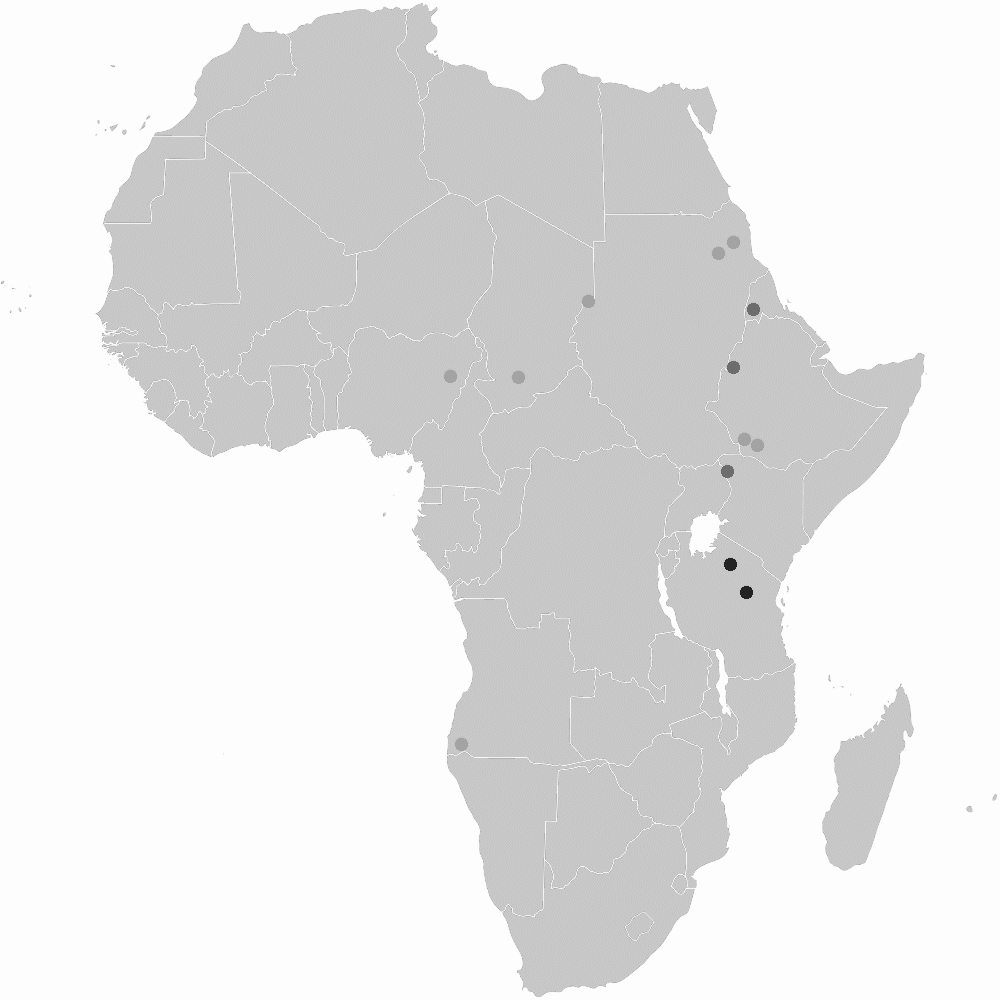 Black spots: (Almost certainly) isolated languages Dark grey: Isolate family (small families with 2 to 3 languages/dialects) Clear grey: Unclassified languages / Doubtfull classification languages Angola: Kwadi language Chad: Laal language, Zaghawa language Egypt: Bedja language Eritrea: Bedja language Ethiopia: Ongota and Berta language, Gumuz languages, Kuliak languages Nigeria: Jalaa language Sudan: Zaghawa, Meroitic and Bedja languages Tanzania: Sandawe and Hadza languages Uganda: Kunama languages